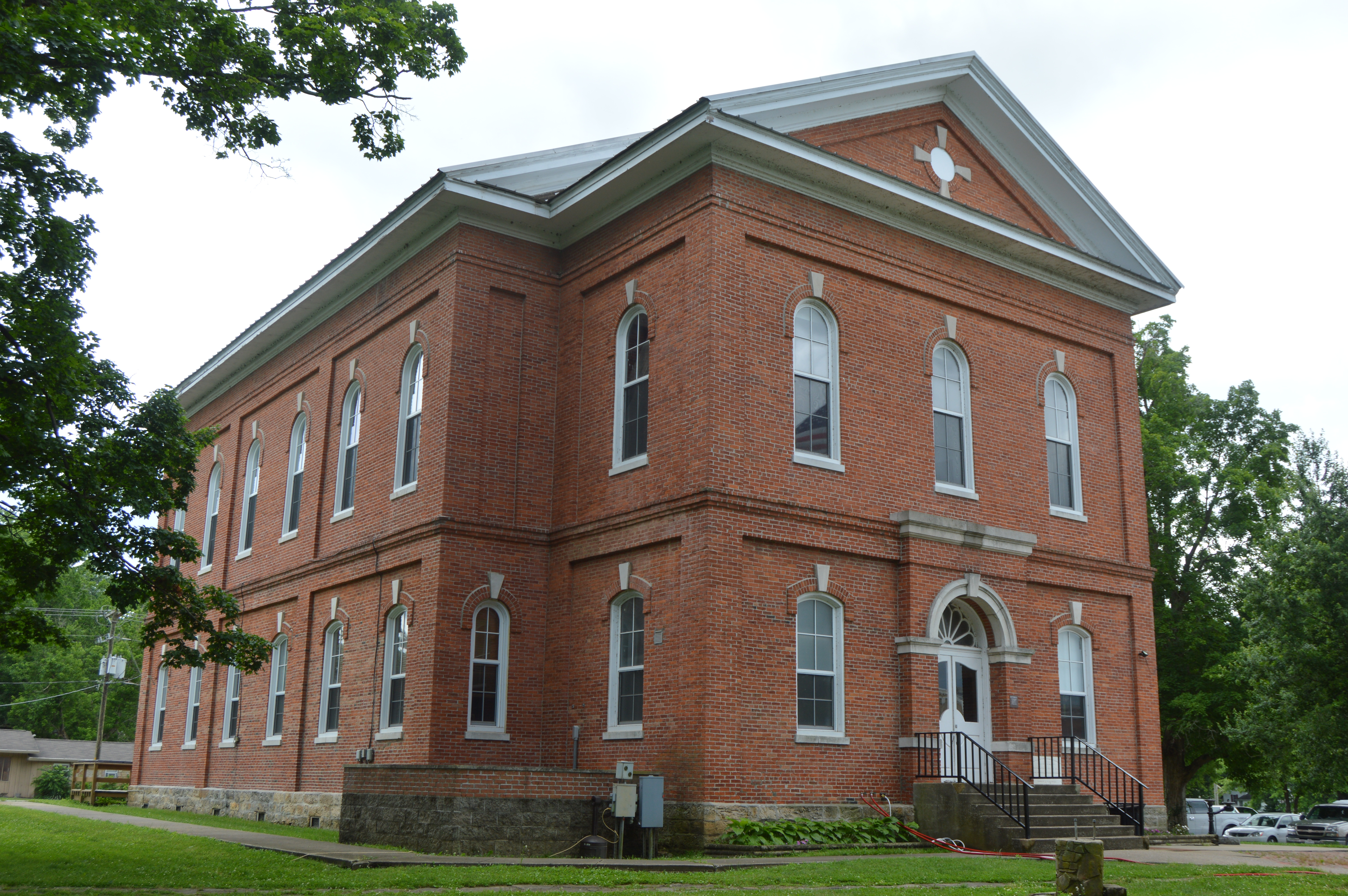 Front and eastern side of the Pope County Courthouse, located at 310 E. Main Street in downtown Golconda, Illinois, United States. Built in 1873, it is part of the Golconda Historic District, a historic district that is listed on the National Register of Historic Places.